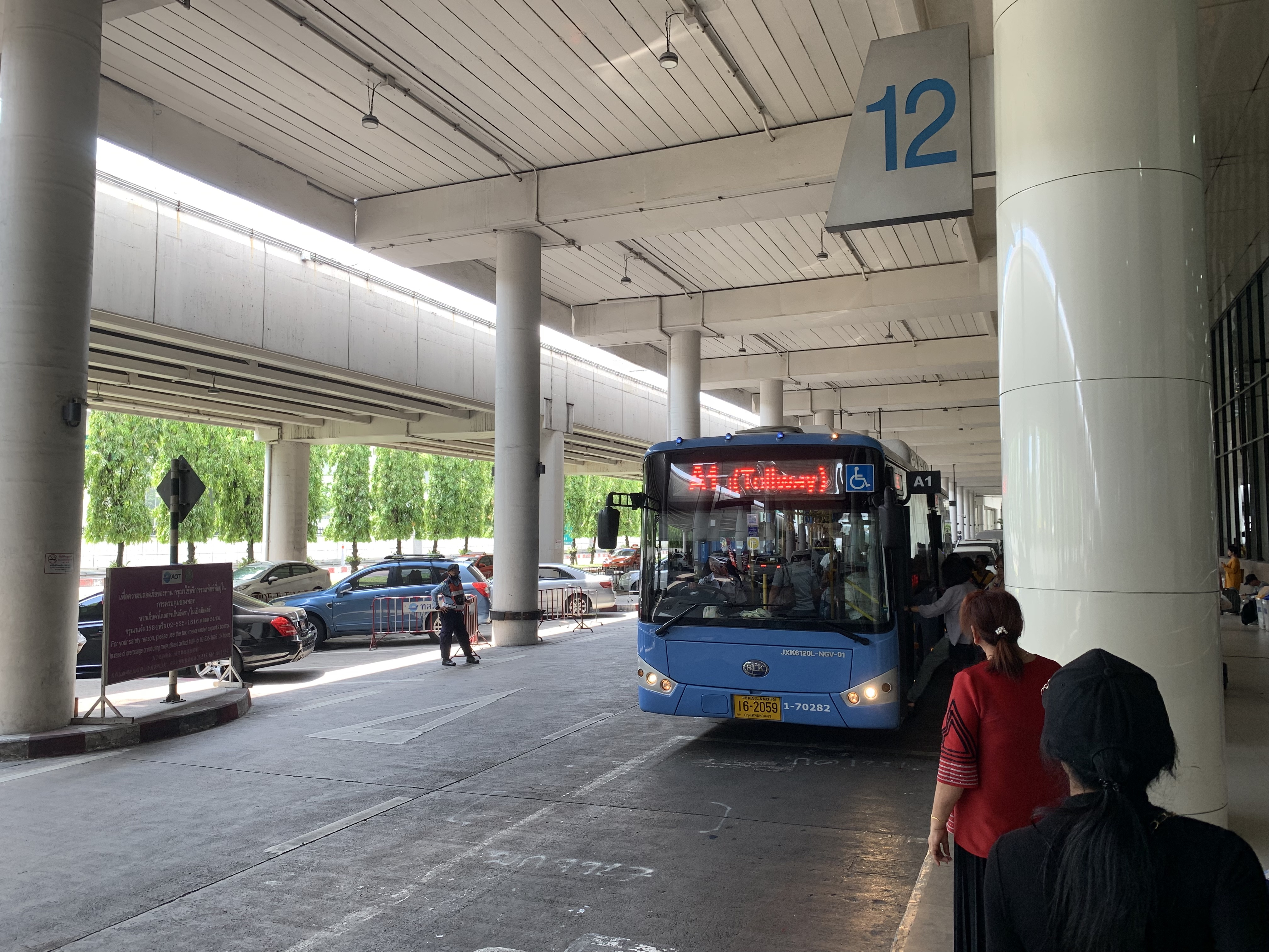 Bus station at Don Mueang Airport 2019